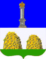 Ardatov (Mordovia), coat of arms (1778)